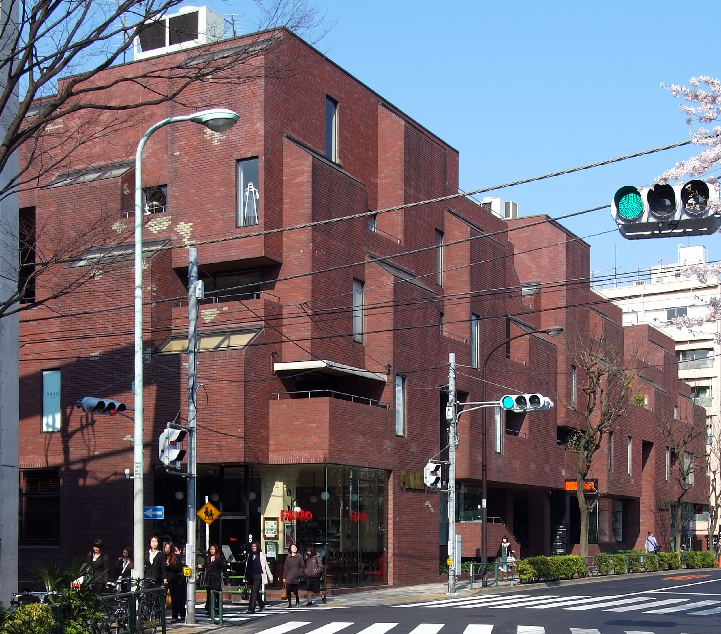 From 1st Building in Minato Ward, Tokyo, Japan, designed by Kazumasa Yamashita in 1976